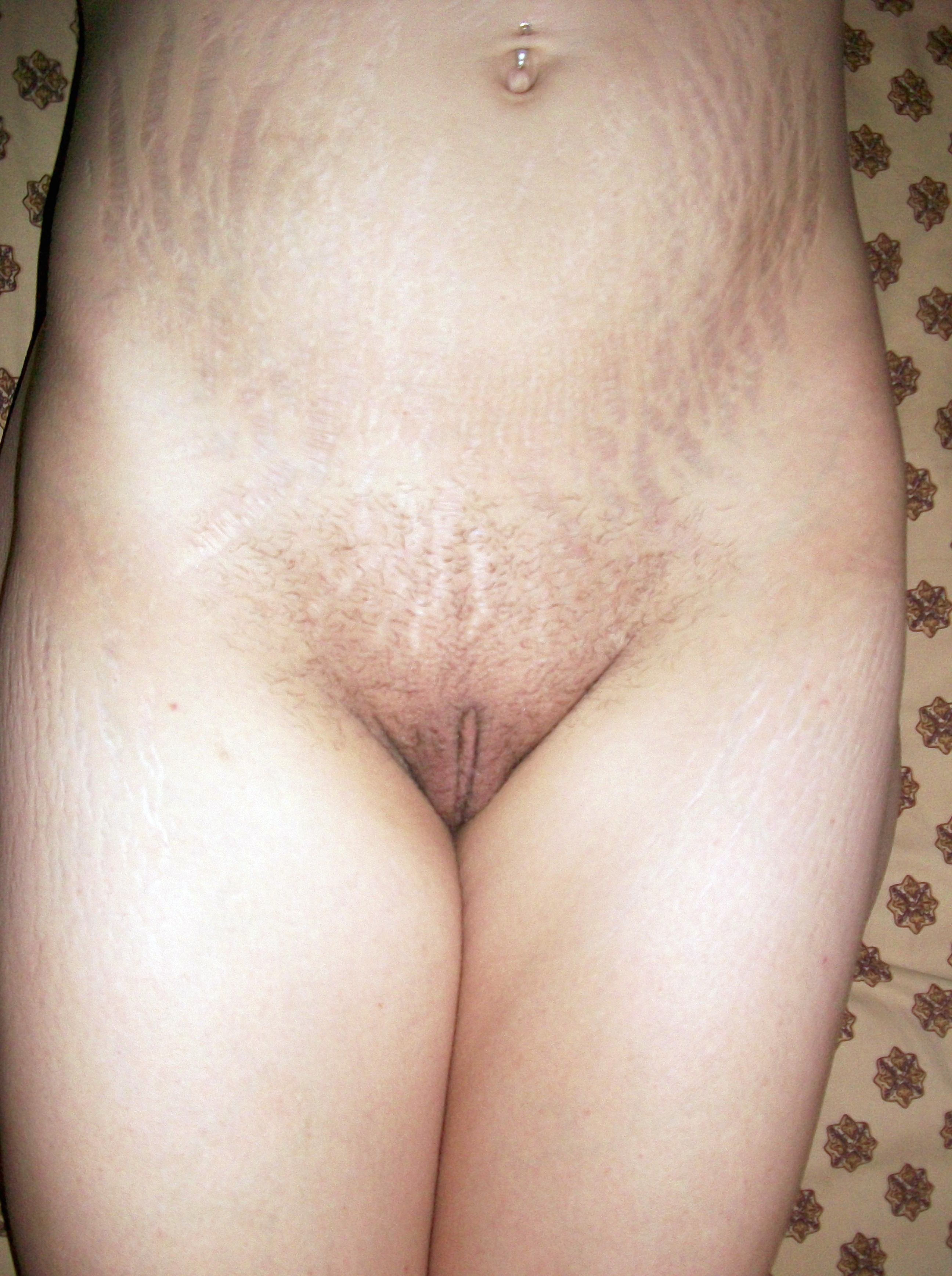 Stretch marks formed during pregnancy